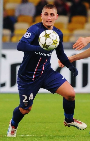 Marco Verratti